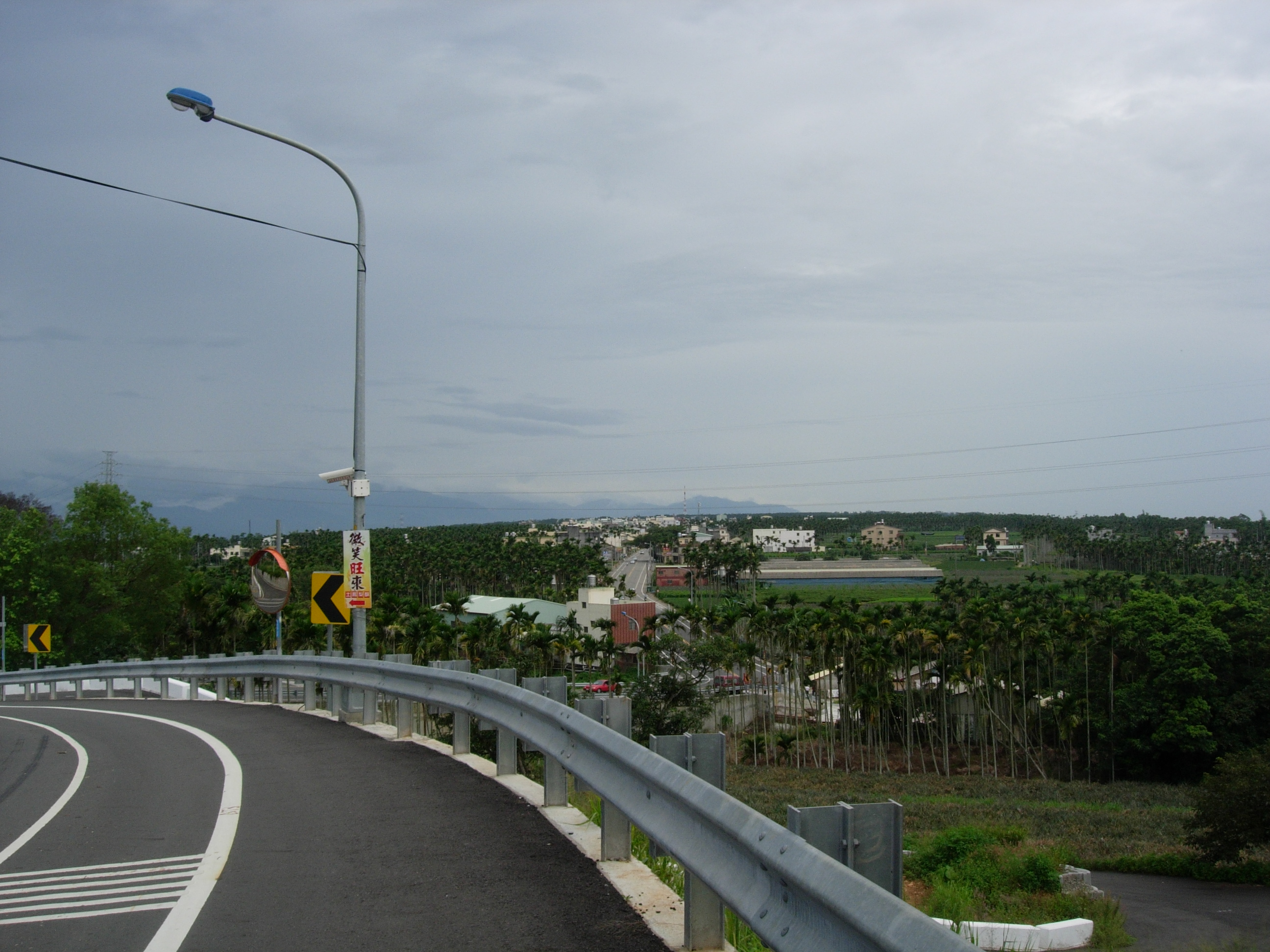 NantouCityFushanYungsin